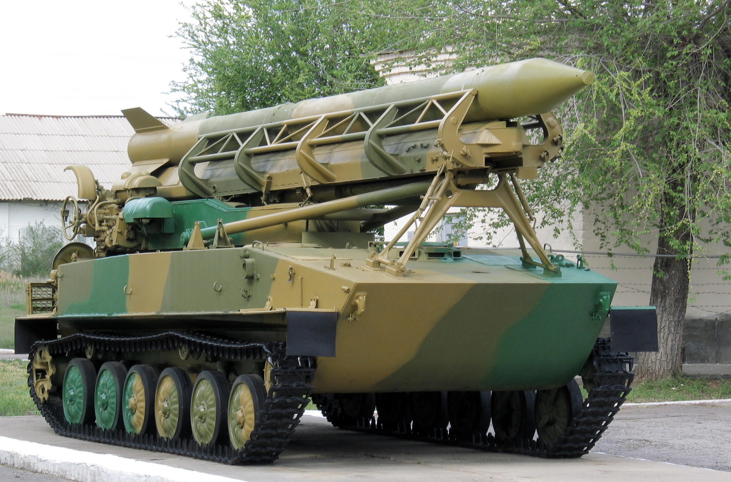 2P16 Transporter-Erector-Launcher with 3R9 rocket of 2K6 missile complex «Luna». Kapustin Yar museum in Znamensk, Russia.